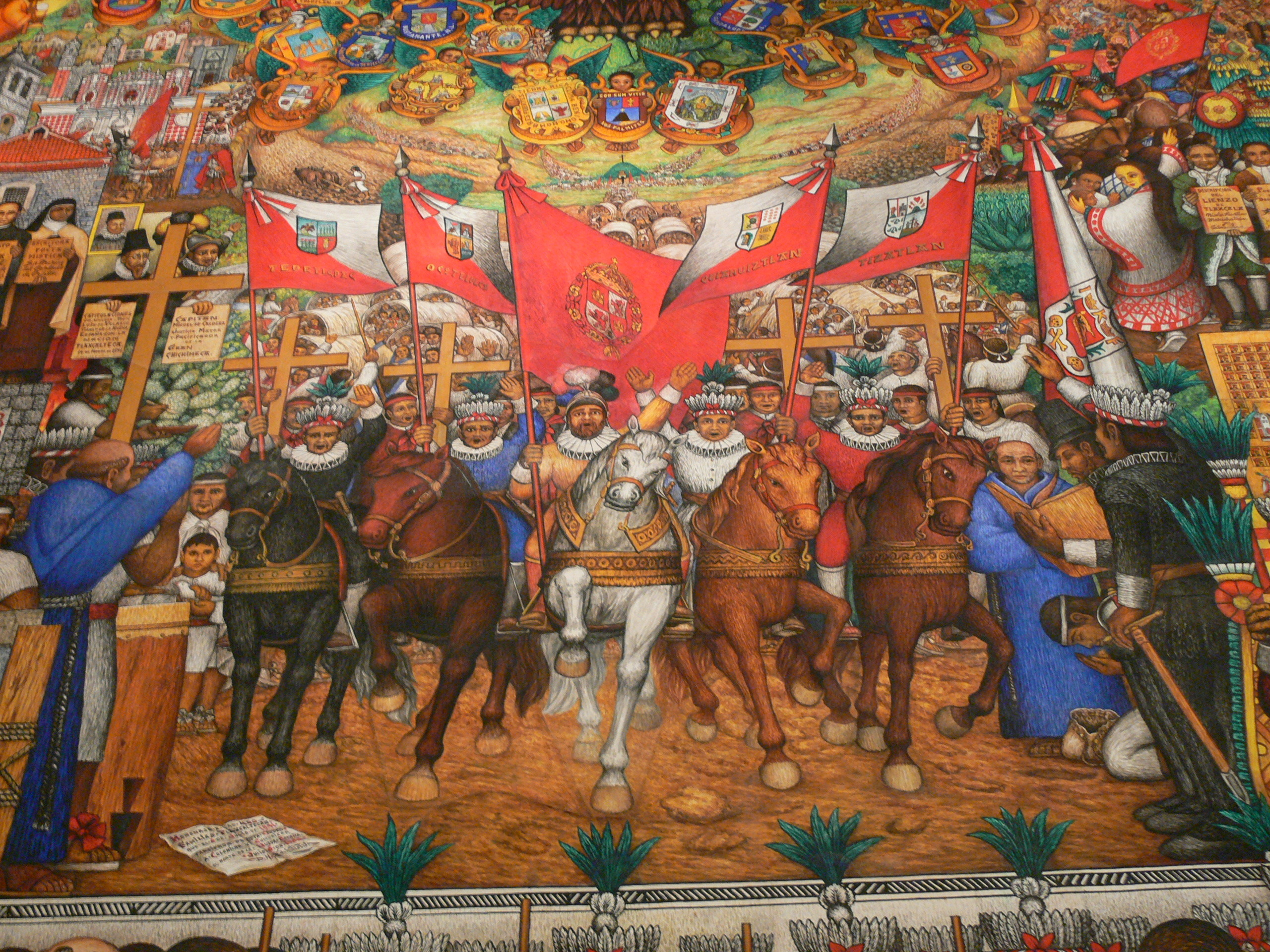 Tlaxcala city. Palacio de Gobierno: Murals - Spanish conquistadors meeting the Indians of Tlaxcala.